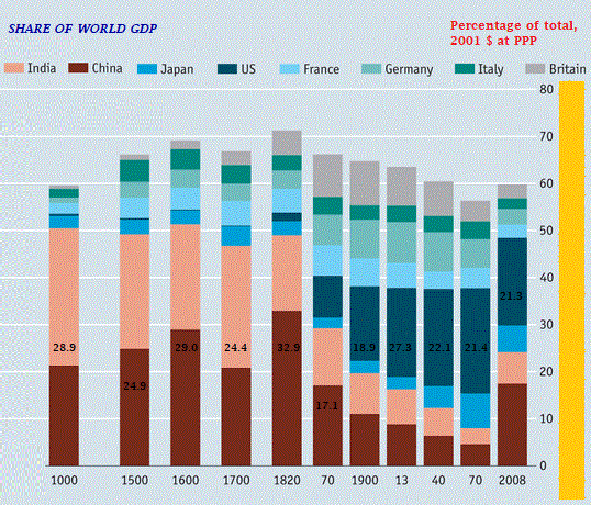 Angus Maddison, The World Economy, 261